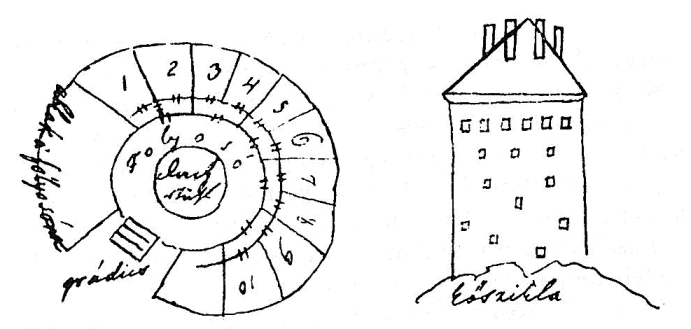 A sketch of Kaiserturm (Kufstein Castle) by Ferenc Kazinczy, who was imprisoned here between 6 July, 1799 and 30 June, 1800.